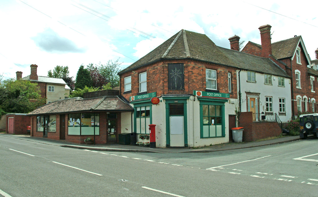 Hartlebury Post Office, corner of Inn Lane & Worcester Road, Hartlebury This group of buildings includes on the far left a hairdressers plus a convenience store and the local Post Office. The road off to the right is Inn Lane.